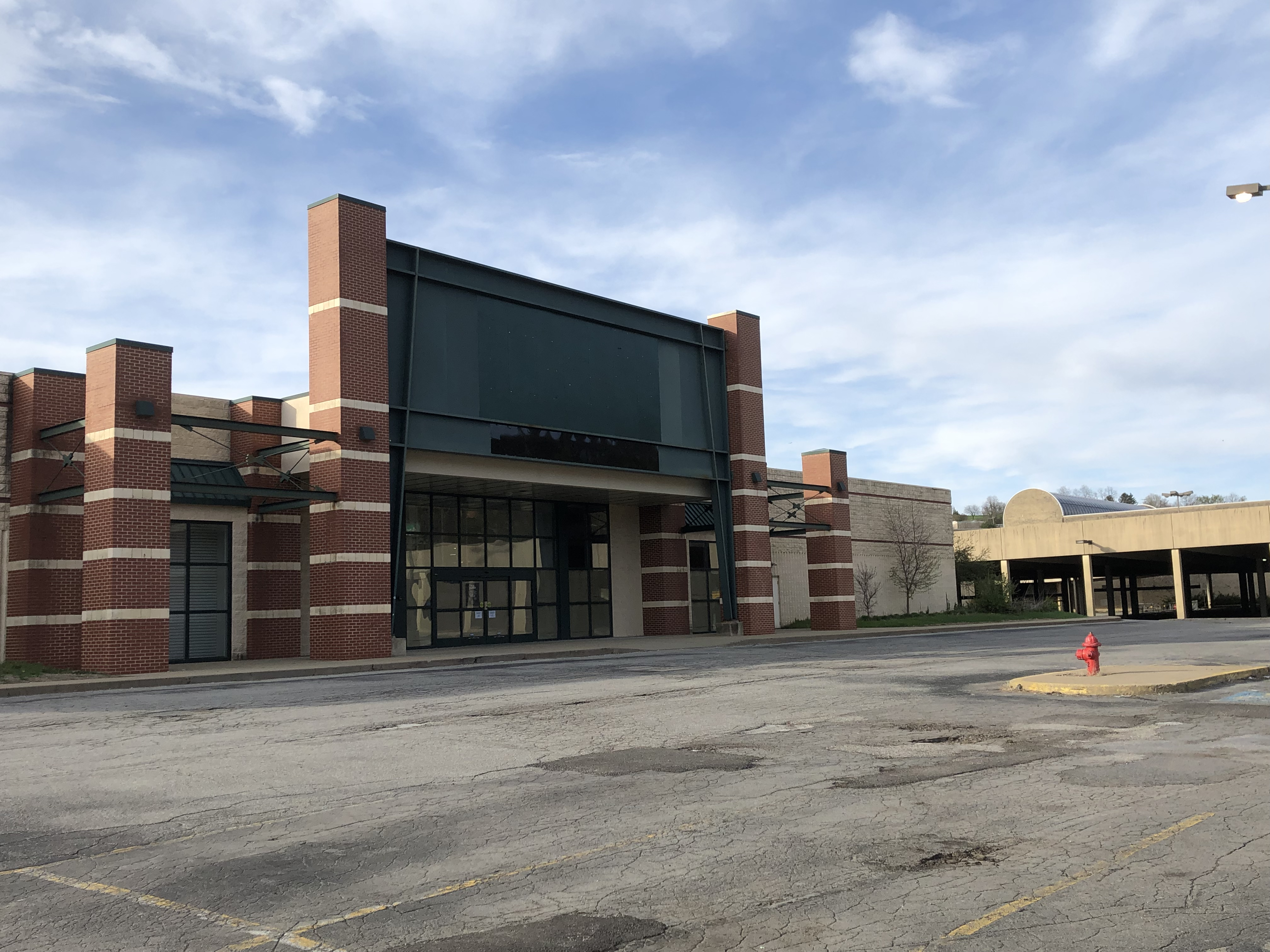 century iii closed dicks sporting goods